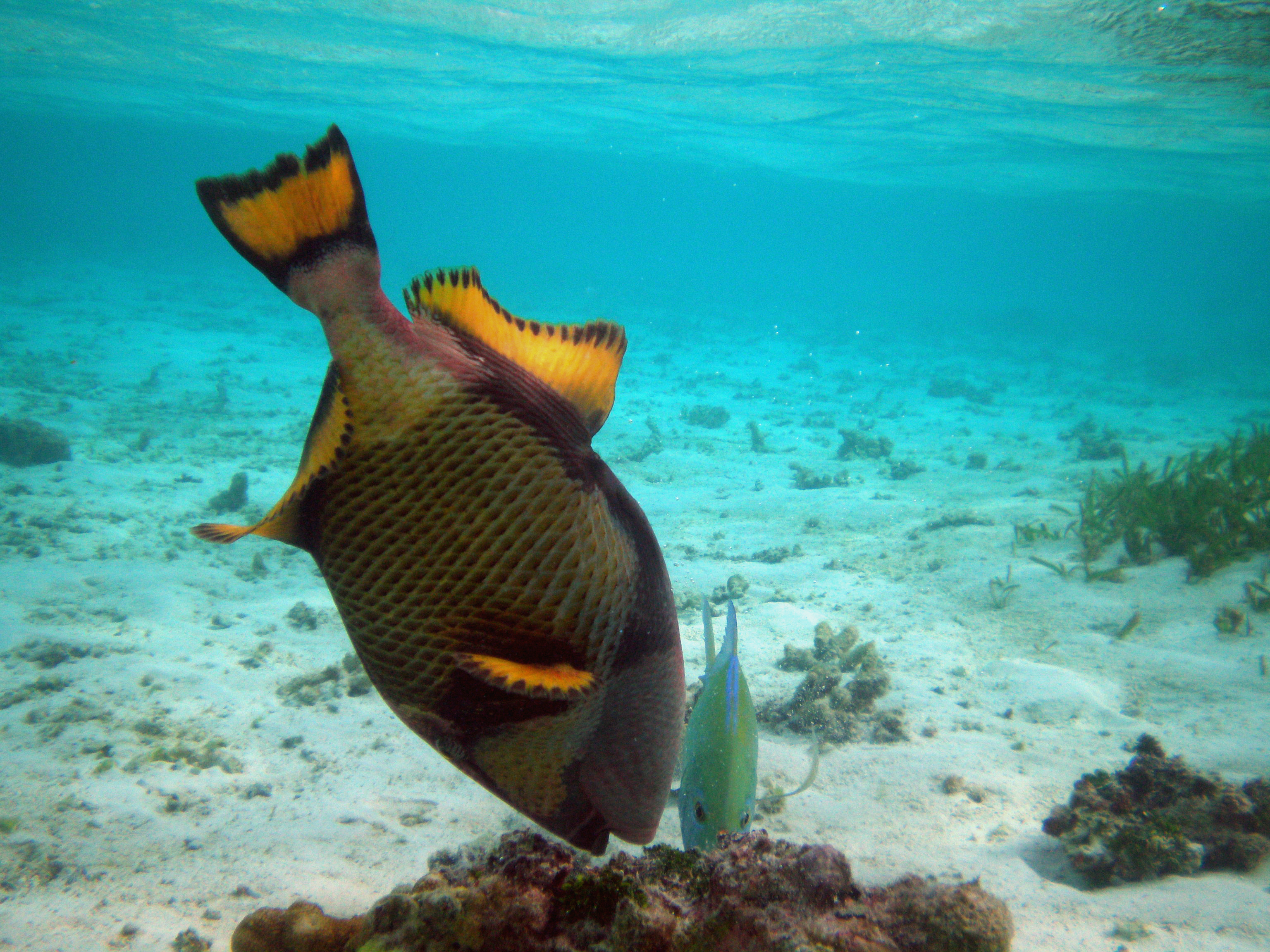 Maldives titan triggerfish, Balistoides viridescens and a jackfish feeding